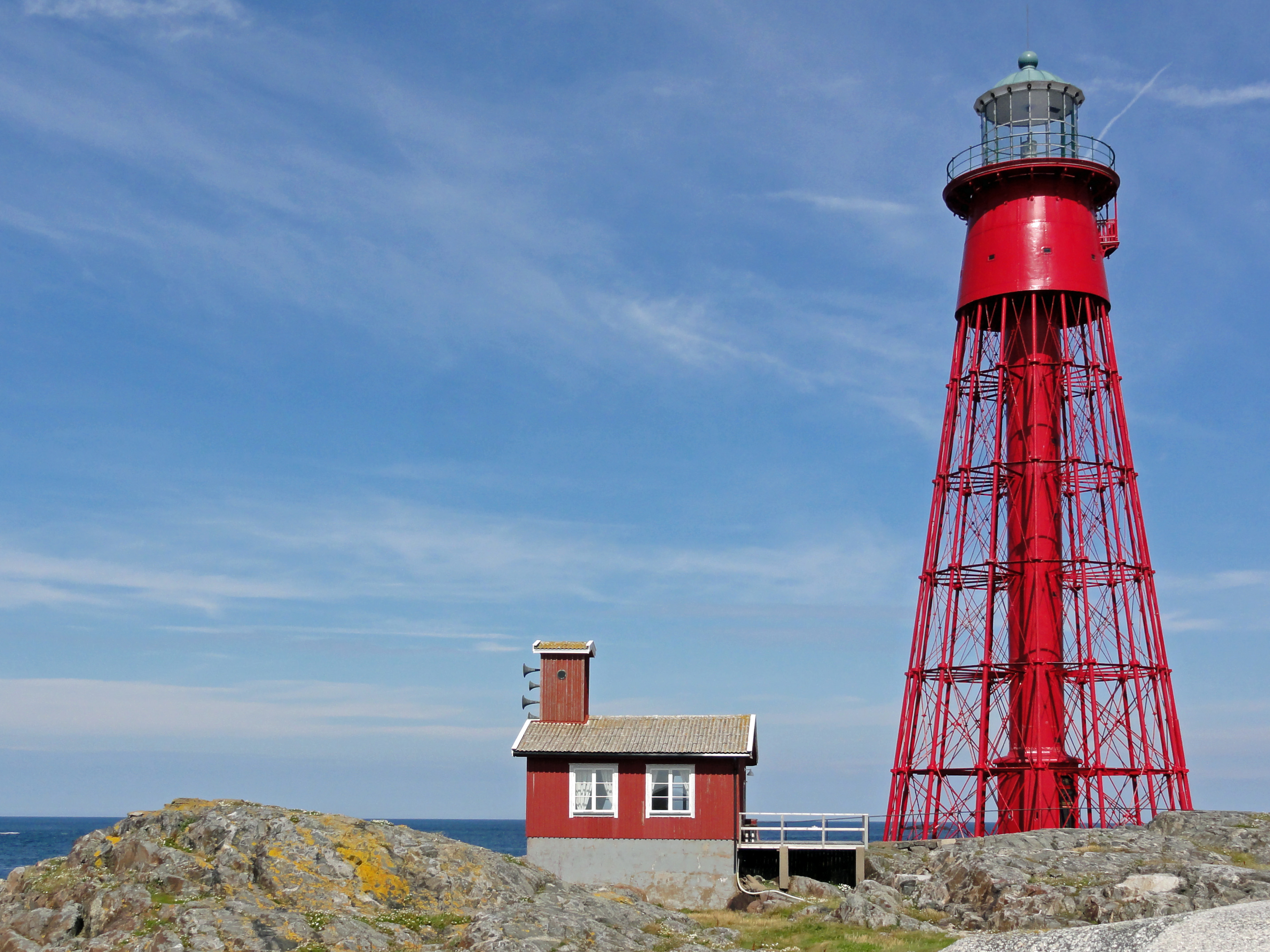 The lighthouse Pater Noster near Marstrand at the swedish westcoast.